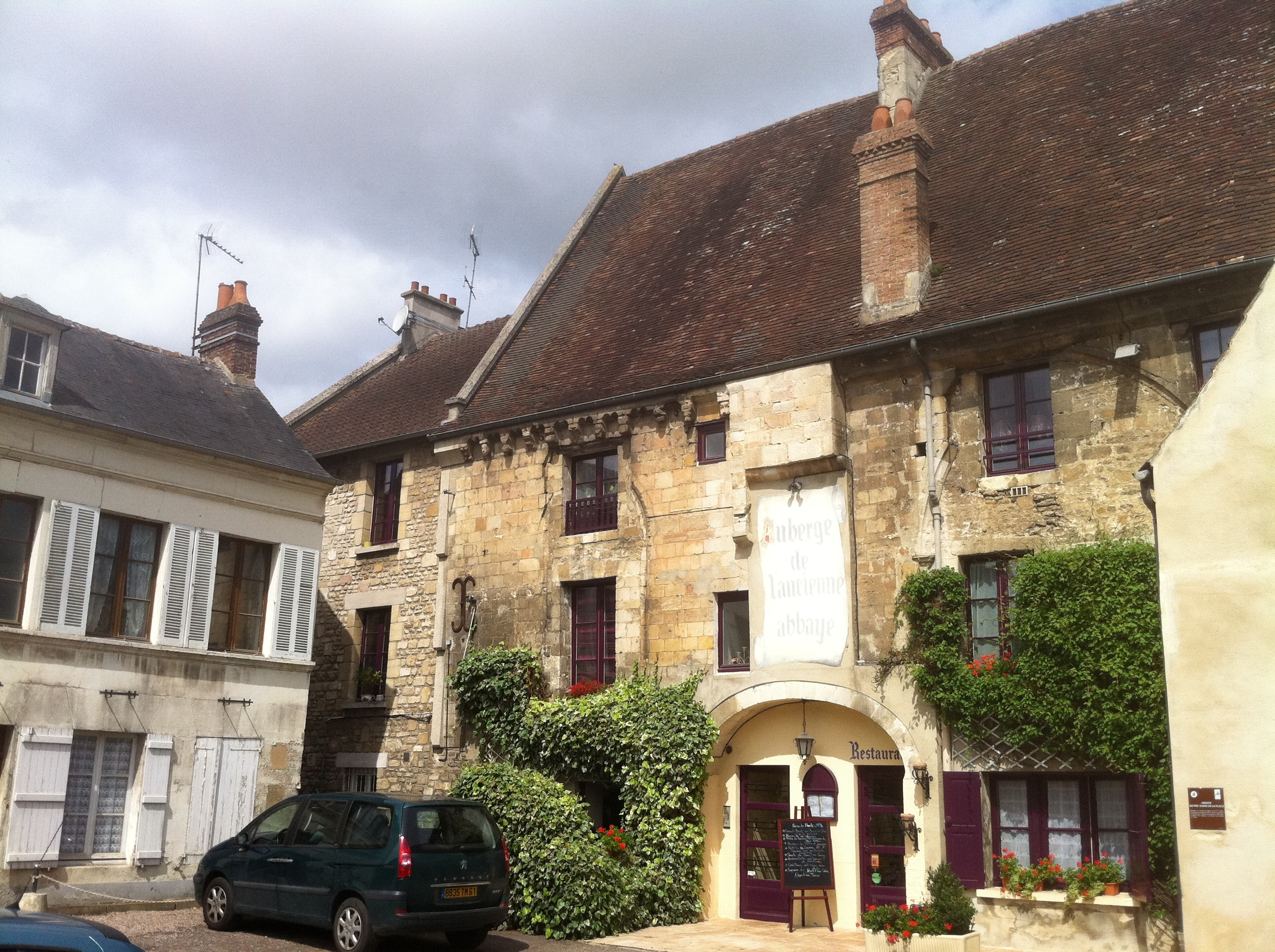 original photo to verify that enhanced artwork was indeed my own. Argentan France